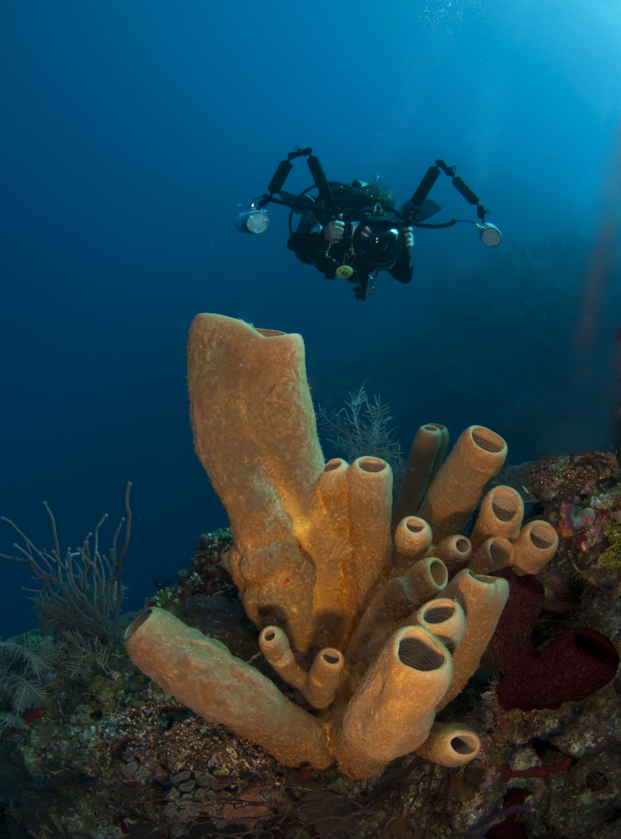 Tube sponges and diver